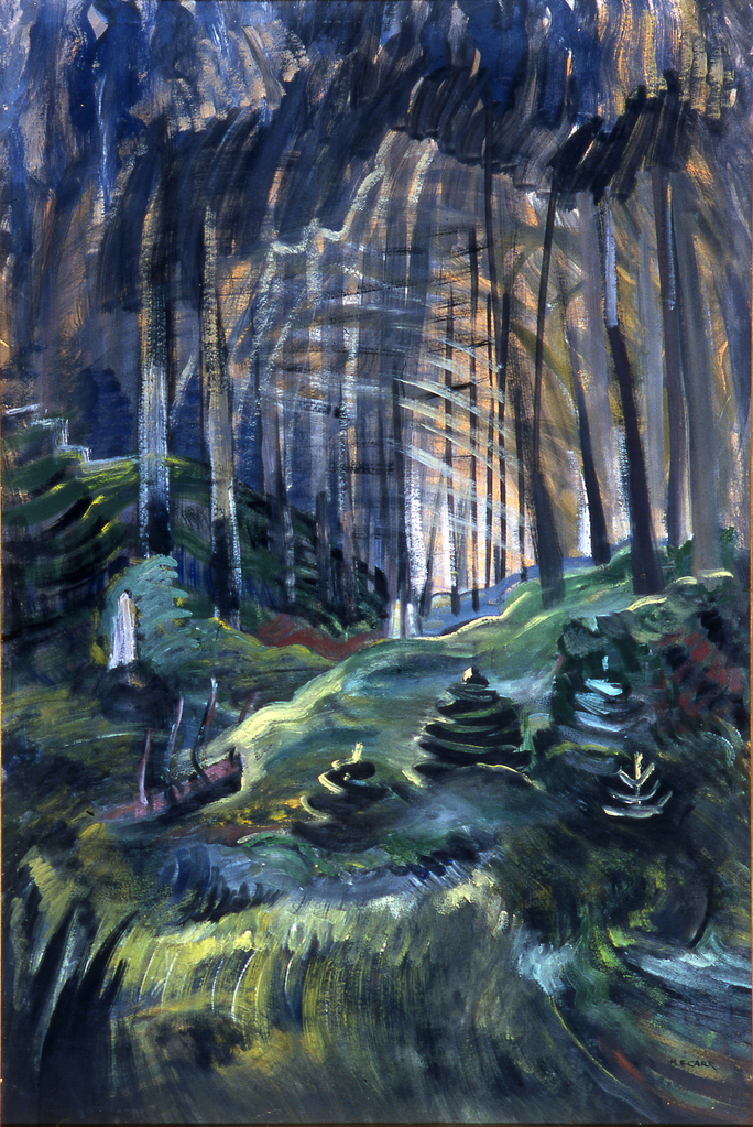 Deep Woods by Emily Carr, 1936, oil on paper, 89.6 x 59.6 cm., Art Gallery of Greater Victoria